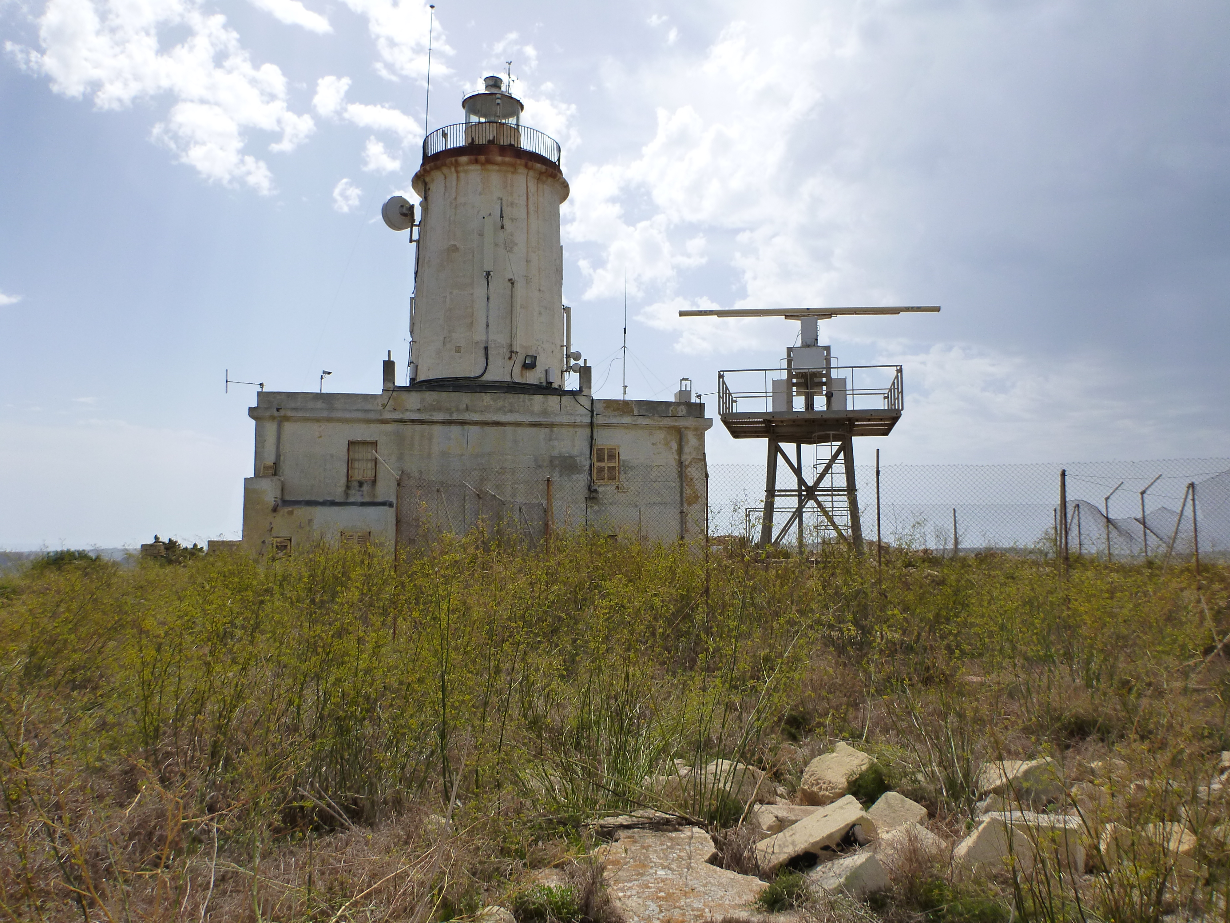 Giordan Lighthouse (Ta’ Gurdan Lighthouse) and the radar tower close to Ghasri in Malta on island Gozo